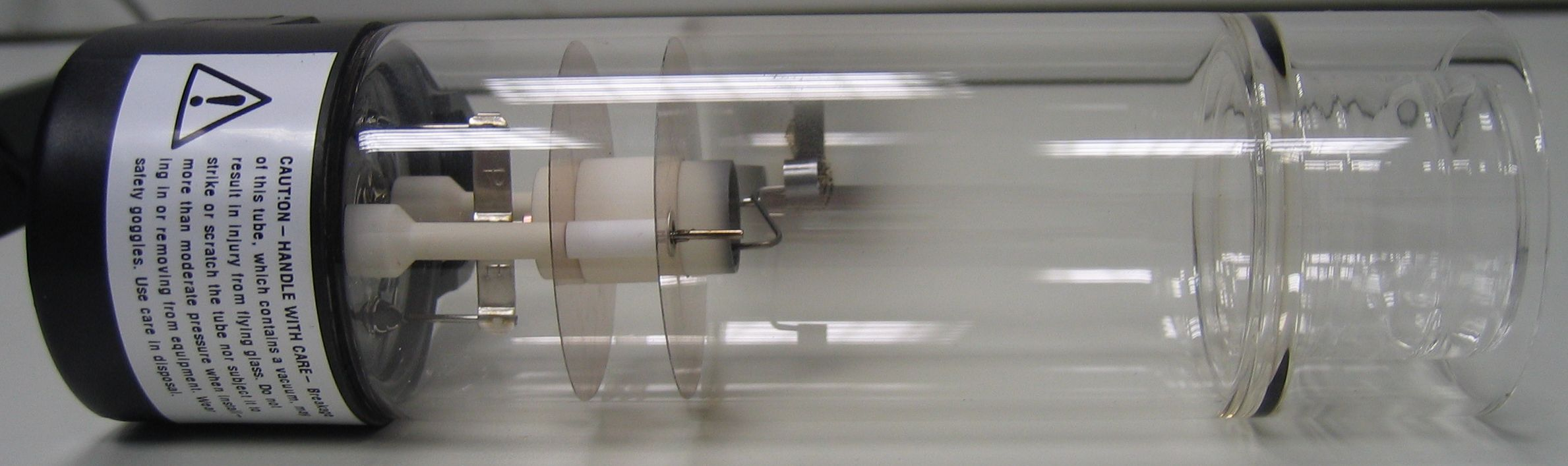 The picture shows a multi-element hollow cathode lamp for better UV light transmission with embedded quartz window